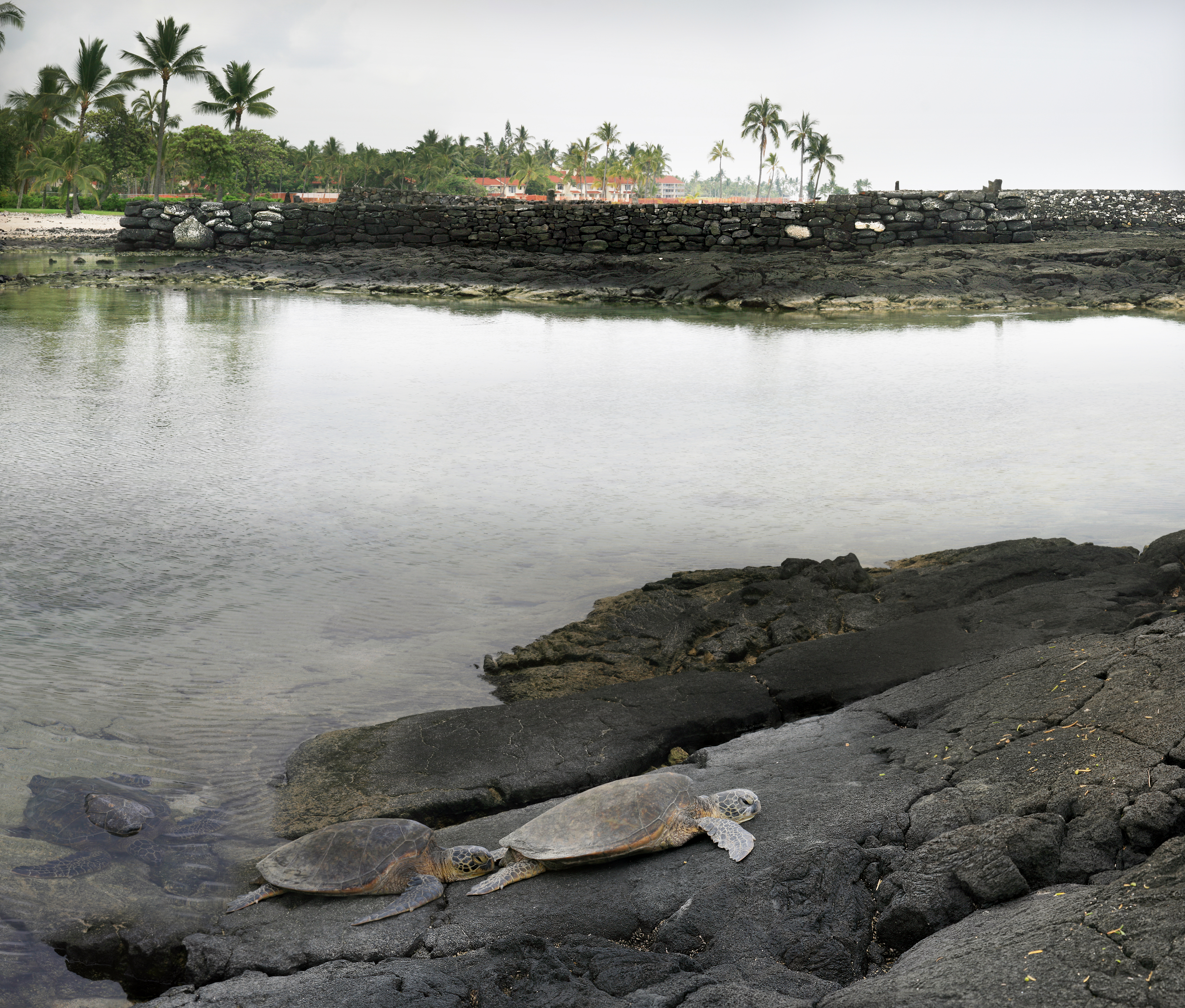 Green turtles at an old lava flow and Hawaiian temple at background under a very bad weather